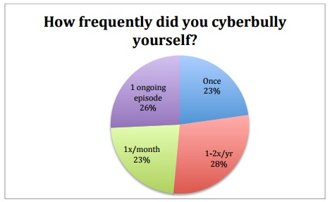 Elizabeth Englander's study on Digital Munchausen